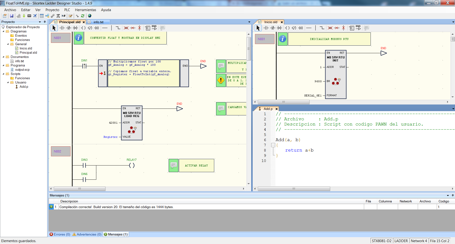 StxLadder Designer Studio (Integrated Development Environment) showing Ladder and Pawn Language programing for PLC.